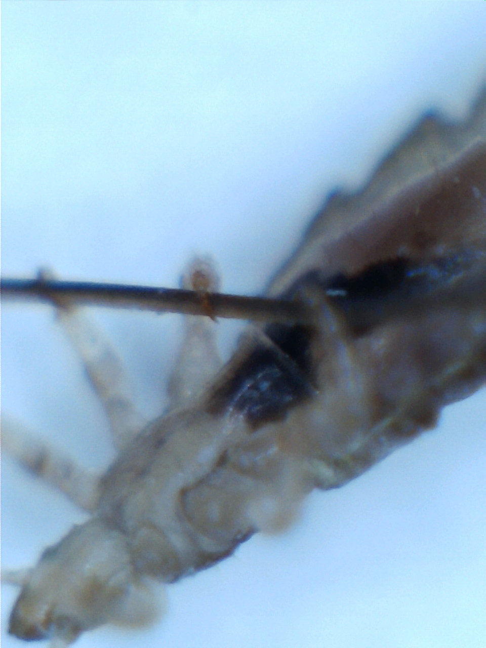 Image of a head louse showing detail of claw gripping a human hair